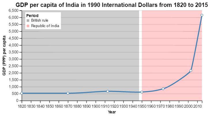 This map shows the change in per capita GDP of India from 1820 AD to 2015 AD. All GDP numbers are inflation adjusted to 1990 International Geary-Khamis dollars. Data Source: Tables of Prof. Angus Maddison (2010). The per capita GDP over various years and population data can be downloaded in a spreadsheet from here. The per capita data in this chart is also available in hardcopy version here: Maddison A (2007), Contours of the World Economy I-2030AD, Oxford University Press, ISBN 978-0199227204 The 2015 estimate is retrieved from the International Monetary Fund.